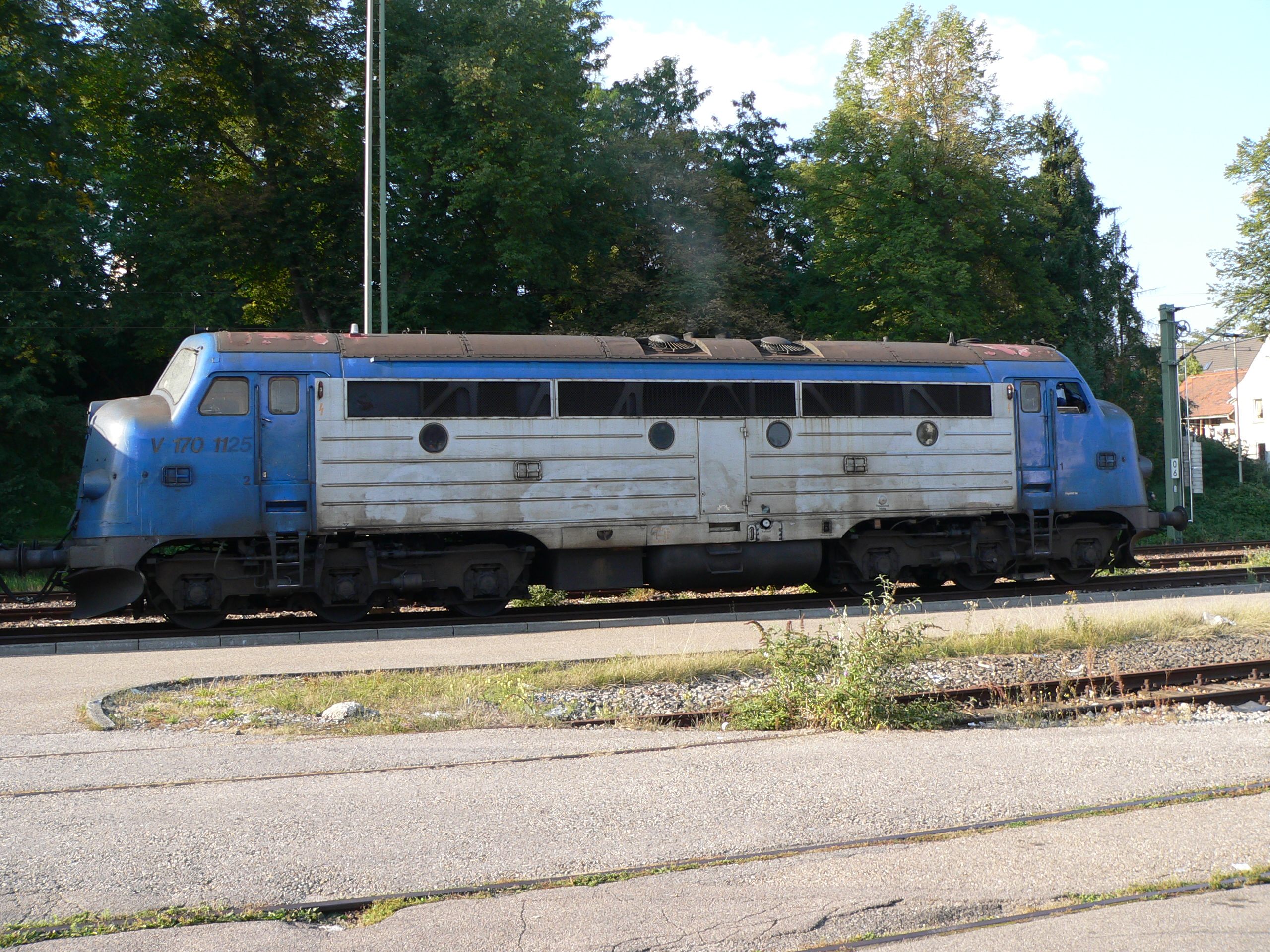 NOHAB MY Eichholz V170 1125 ex DSB MY 1125; Enztalbahn near Pforzheim Germany